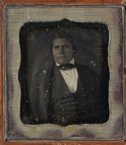 Daguerrotype of Cayuga chief, Wa-o-wa-wa-na-onk or Peter Wilson. Created in the 1850s.